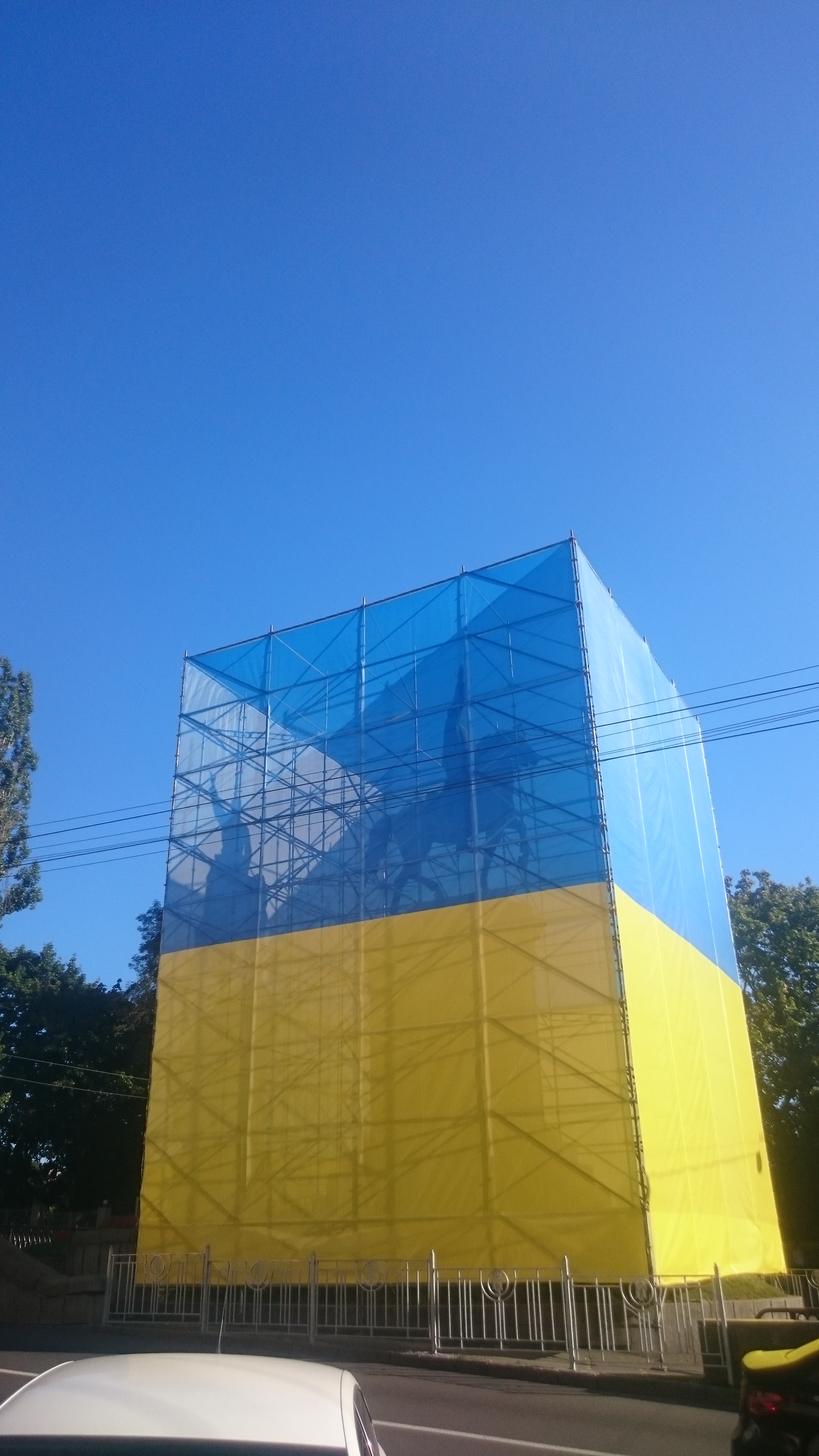 Ščors' monument, Kyiv